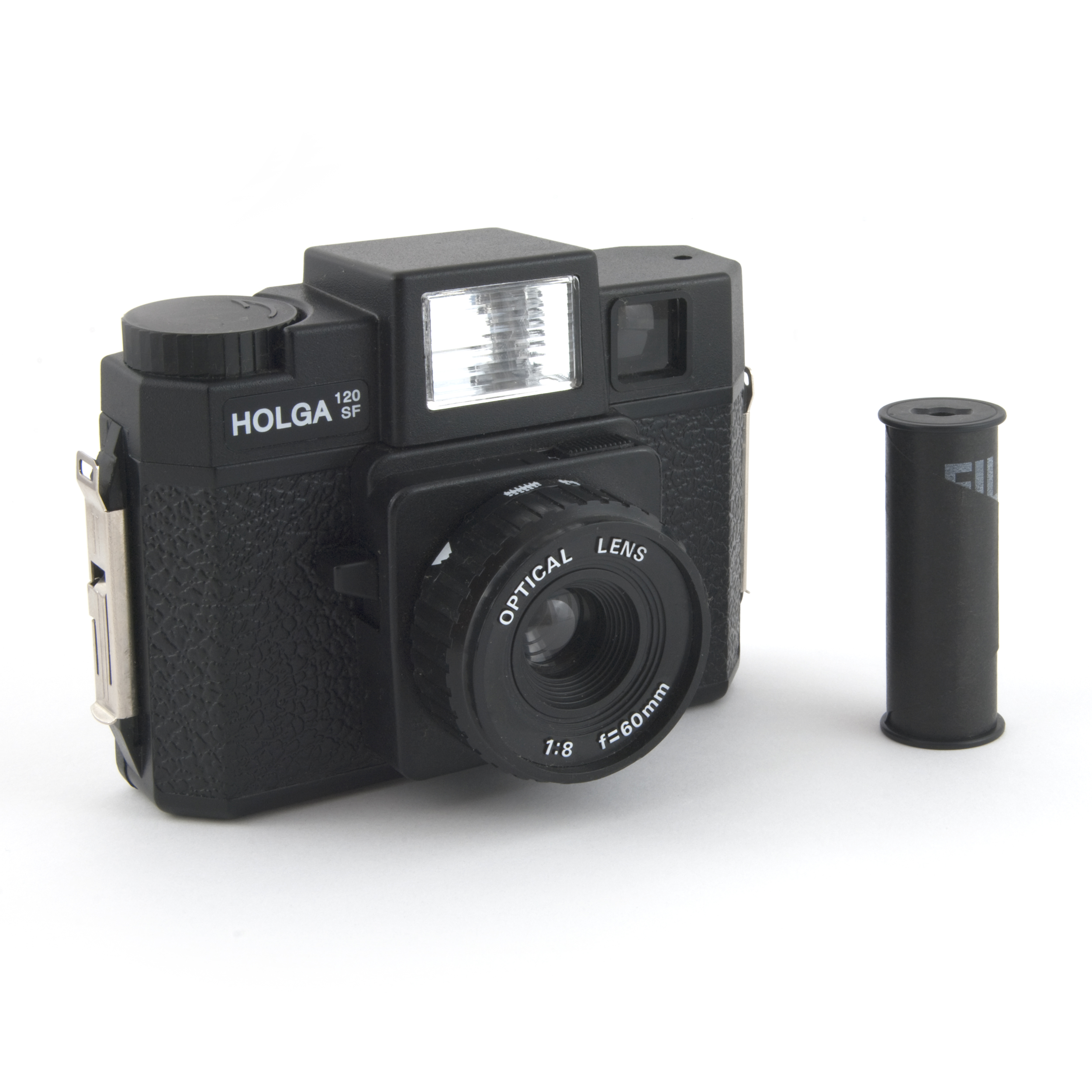 A Holga 120SF camera with a roll of 120 format film for scale.